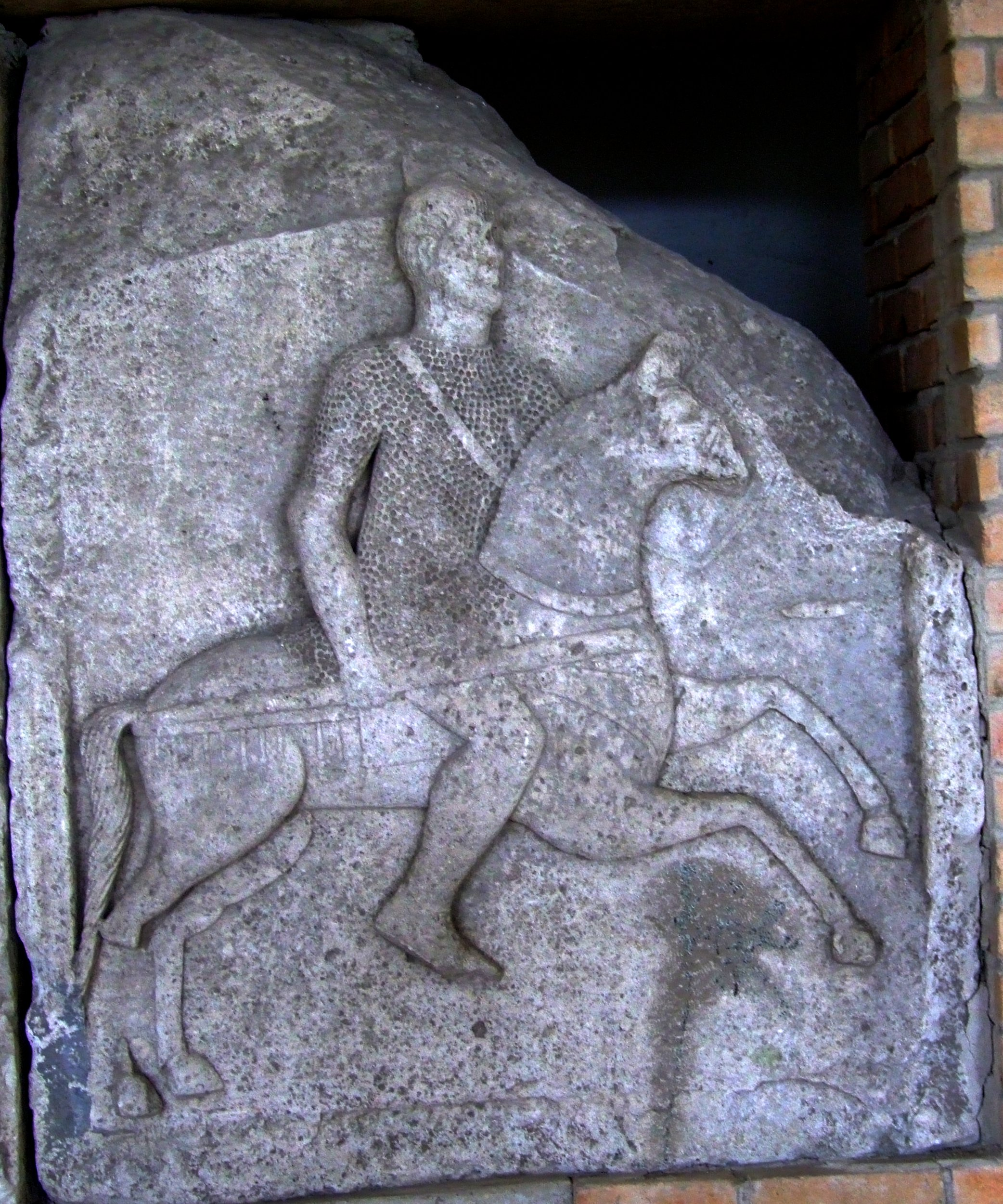 Tropeum Traiani Metope I